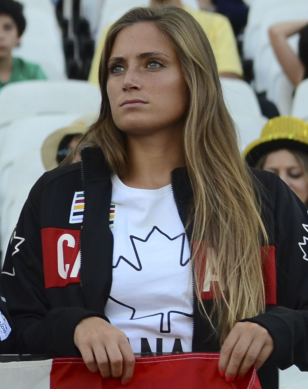 Canada wins Zimbabwe in Rio Olympics